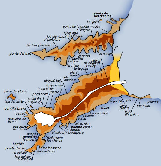 map of the rocks of the Caleta in Cádiz